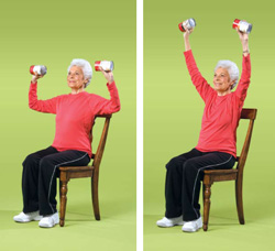 An older adult doing a simple at home strength exercise with tin cans.